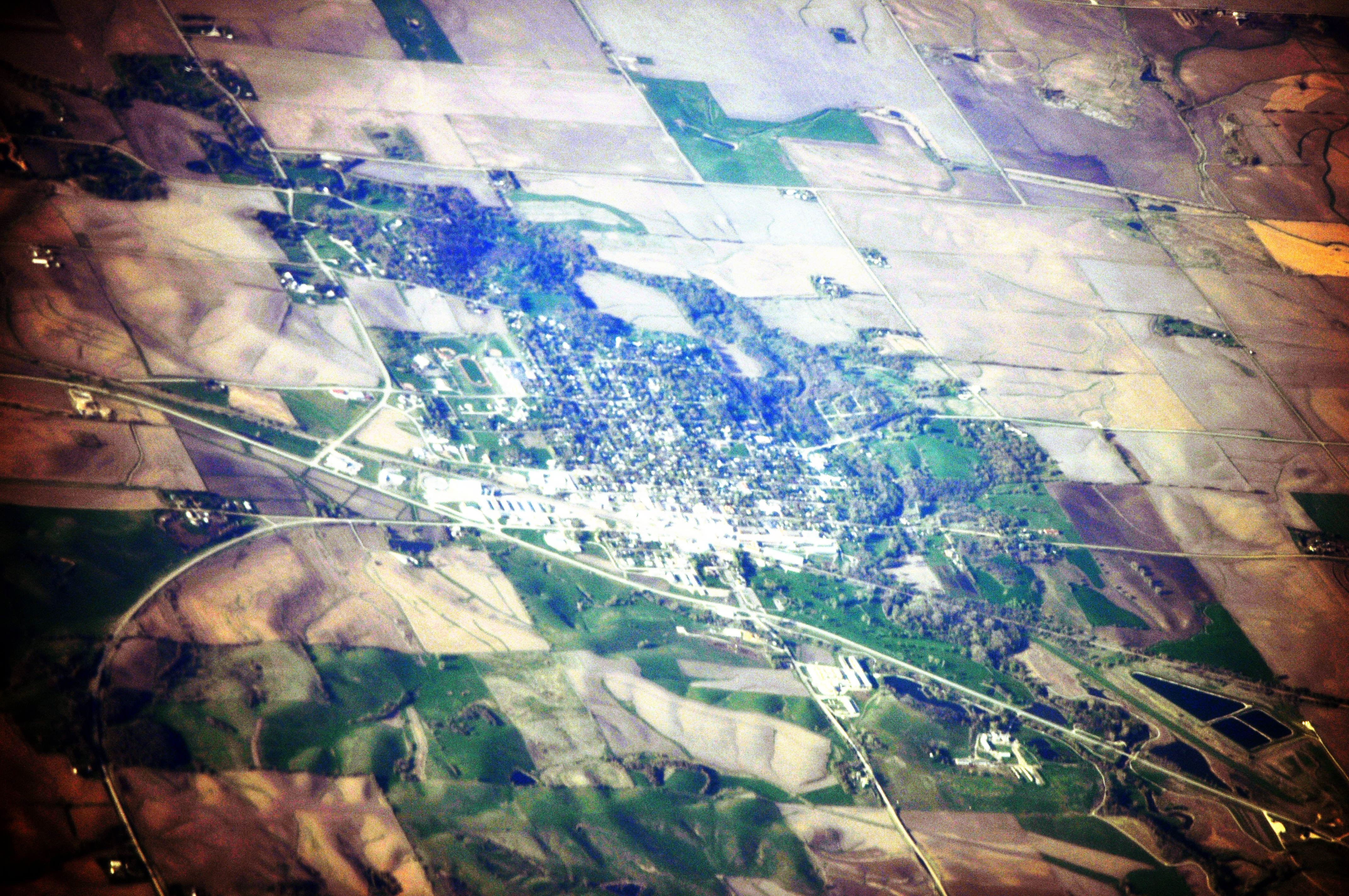 Aerial photo of Coon Rapids, Iowa, USA.